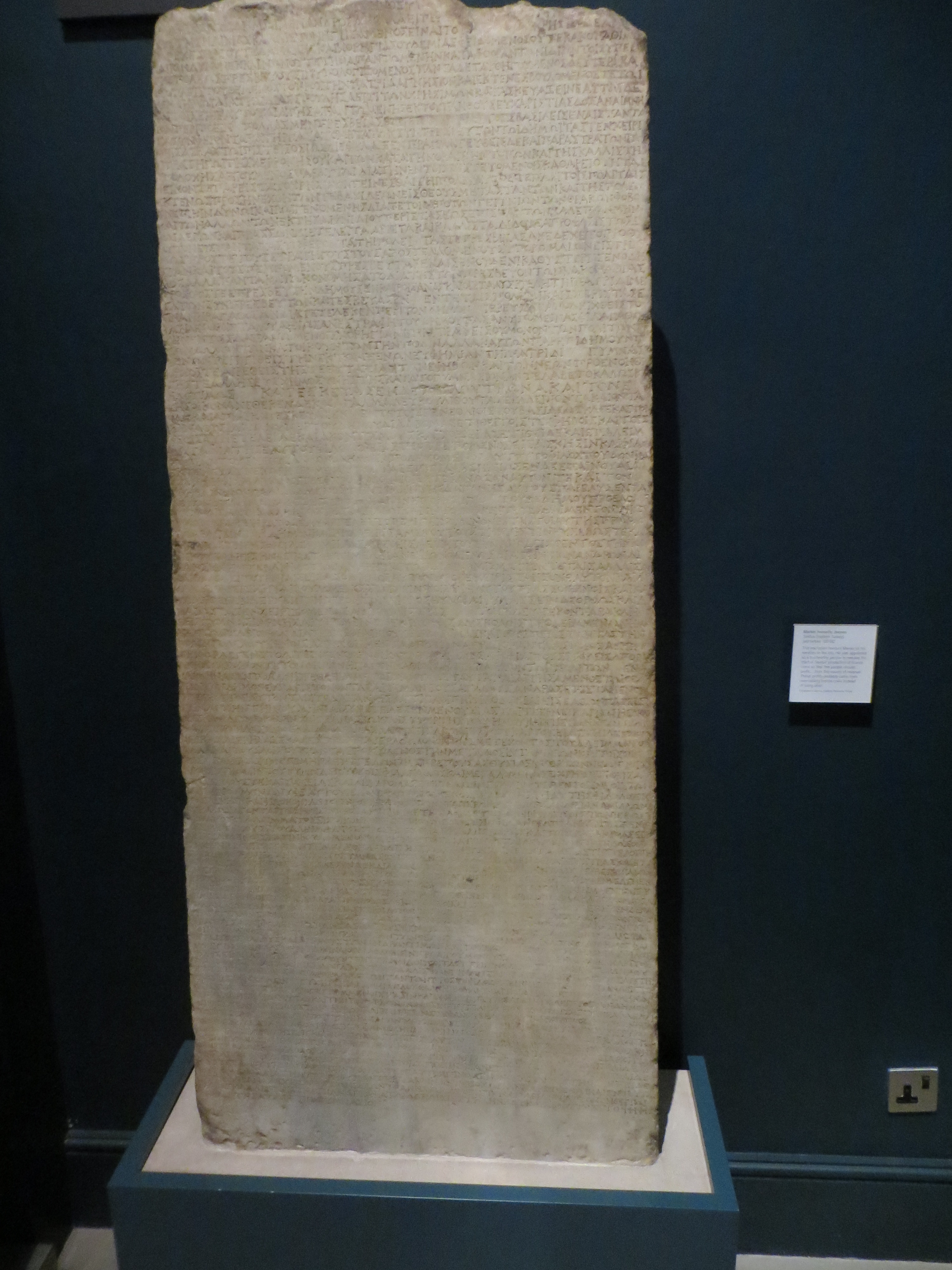 Decree from Sestus in Asia Minor in British Museum